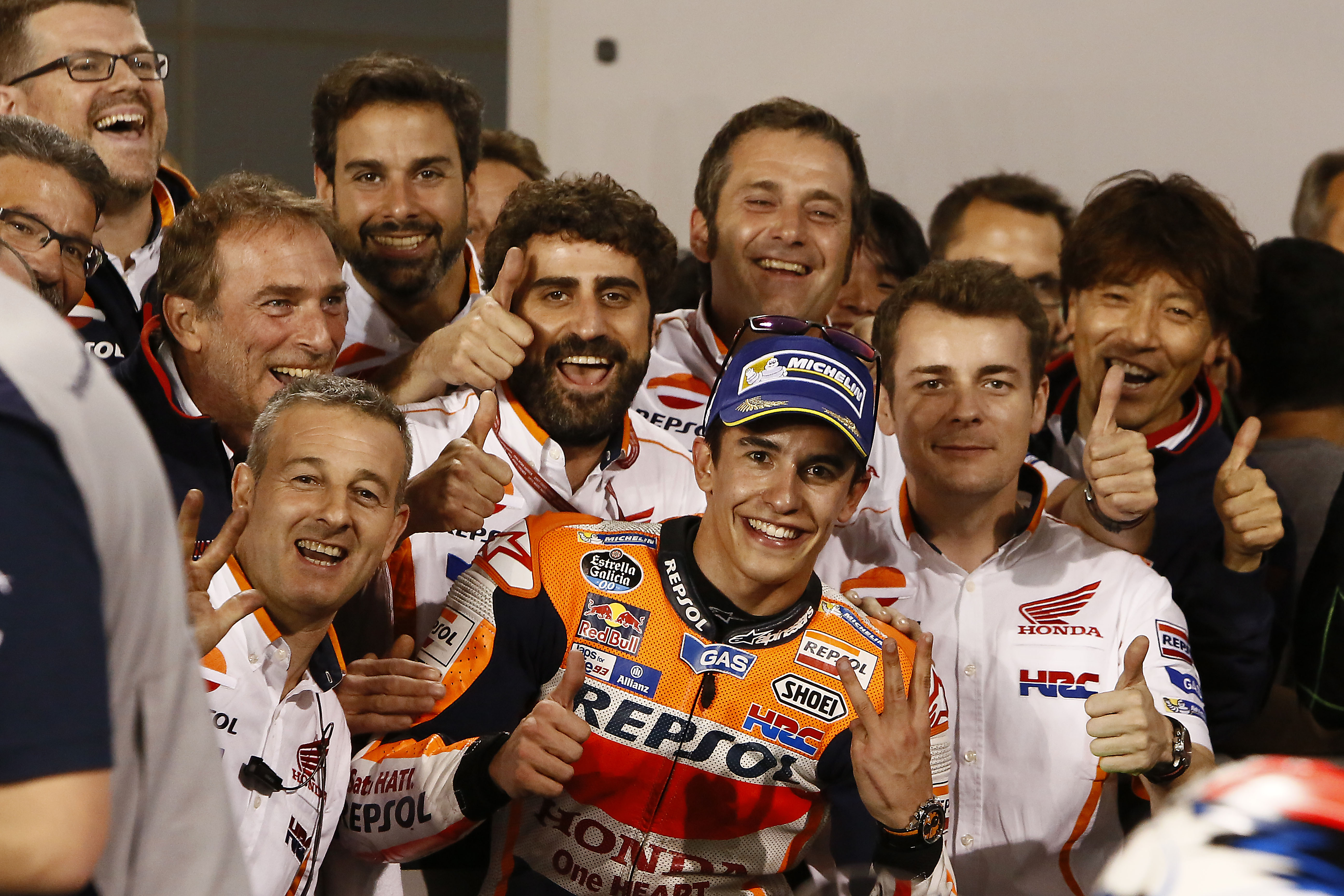 Marc Marquez in Qatar GP 2016